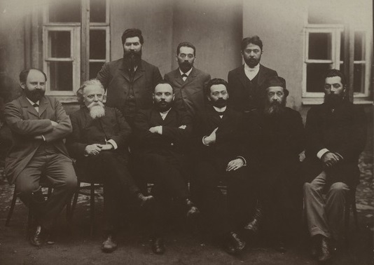 Leaders of Zionist Movement in Russia during the Minsk Convention